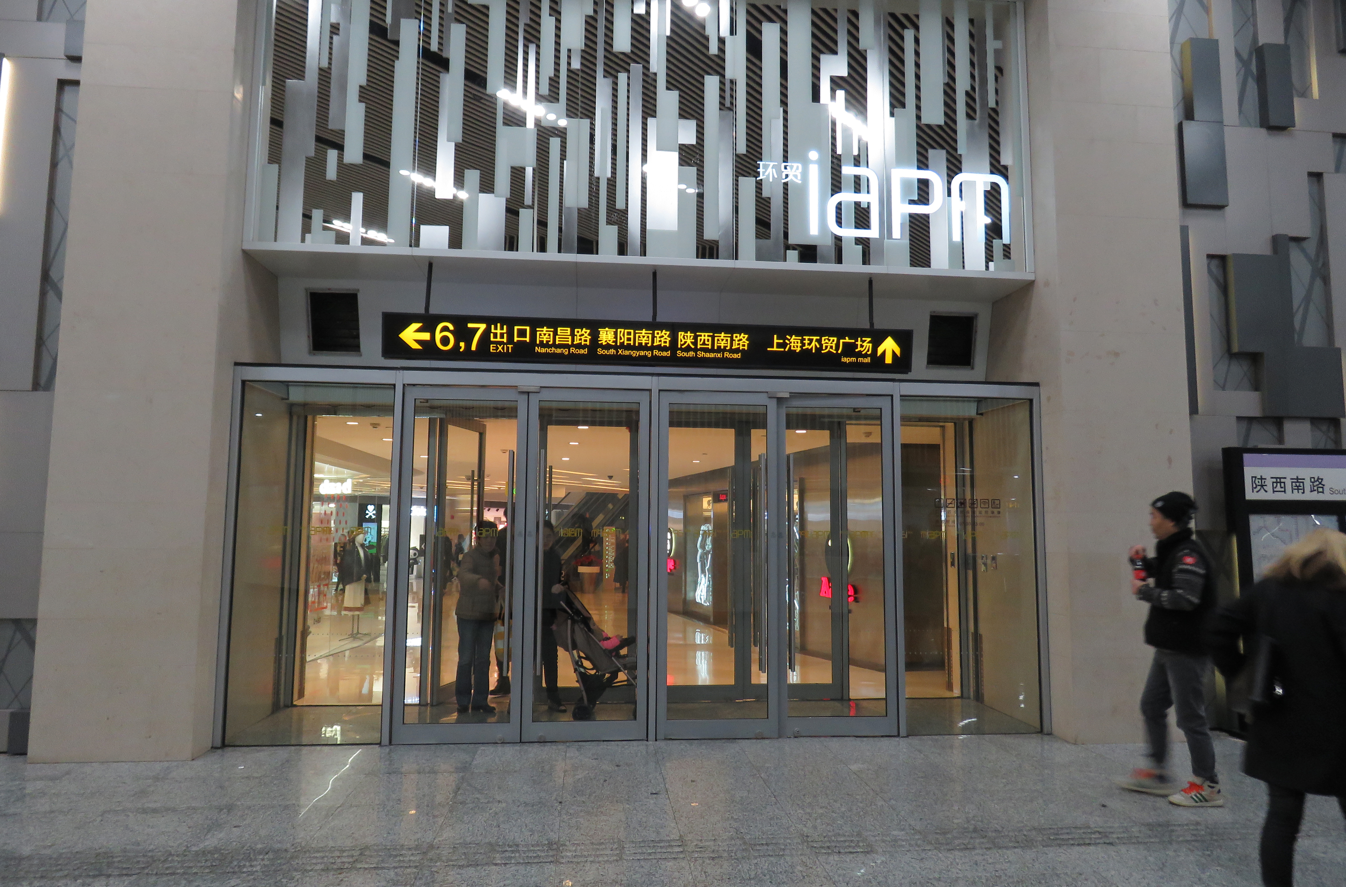 An exit without number, heading for the LG2 floor of iapm.